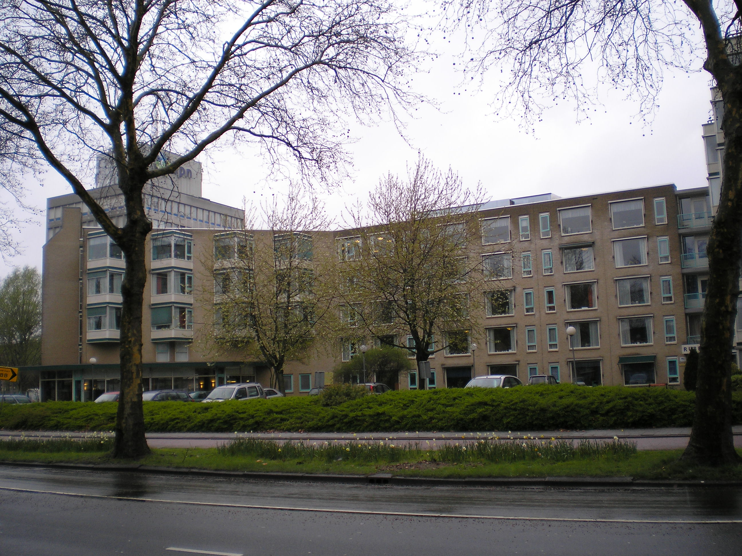 Swellengrebel to the Burgemeester Fockema Andreaelaan of Utrecht in the Netherlands